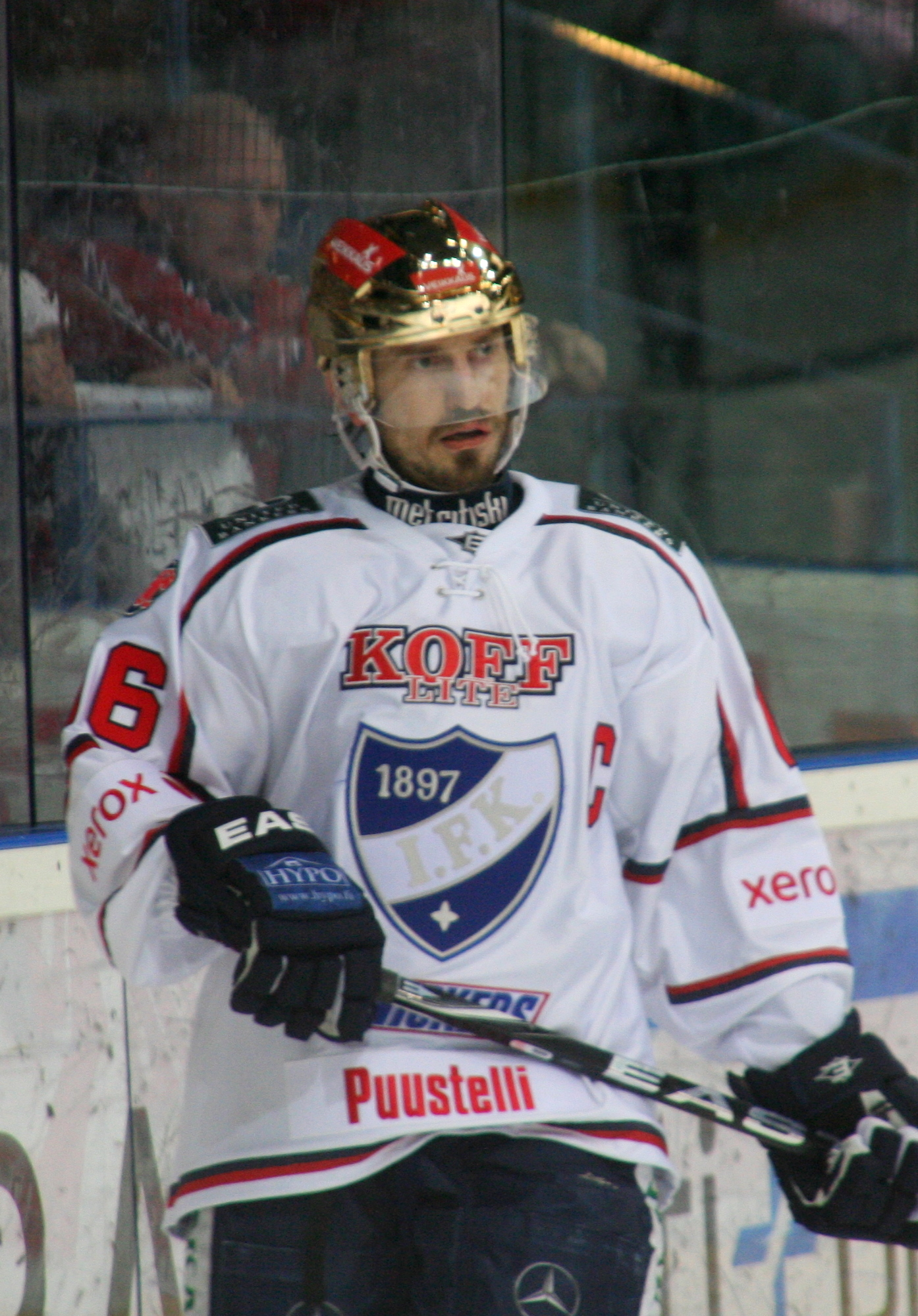 Ice Hockey Team Helsingin IFK's Attacker #16 C Ville Peltonen